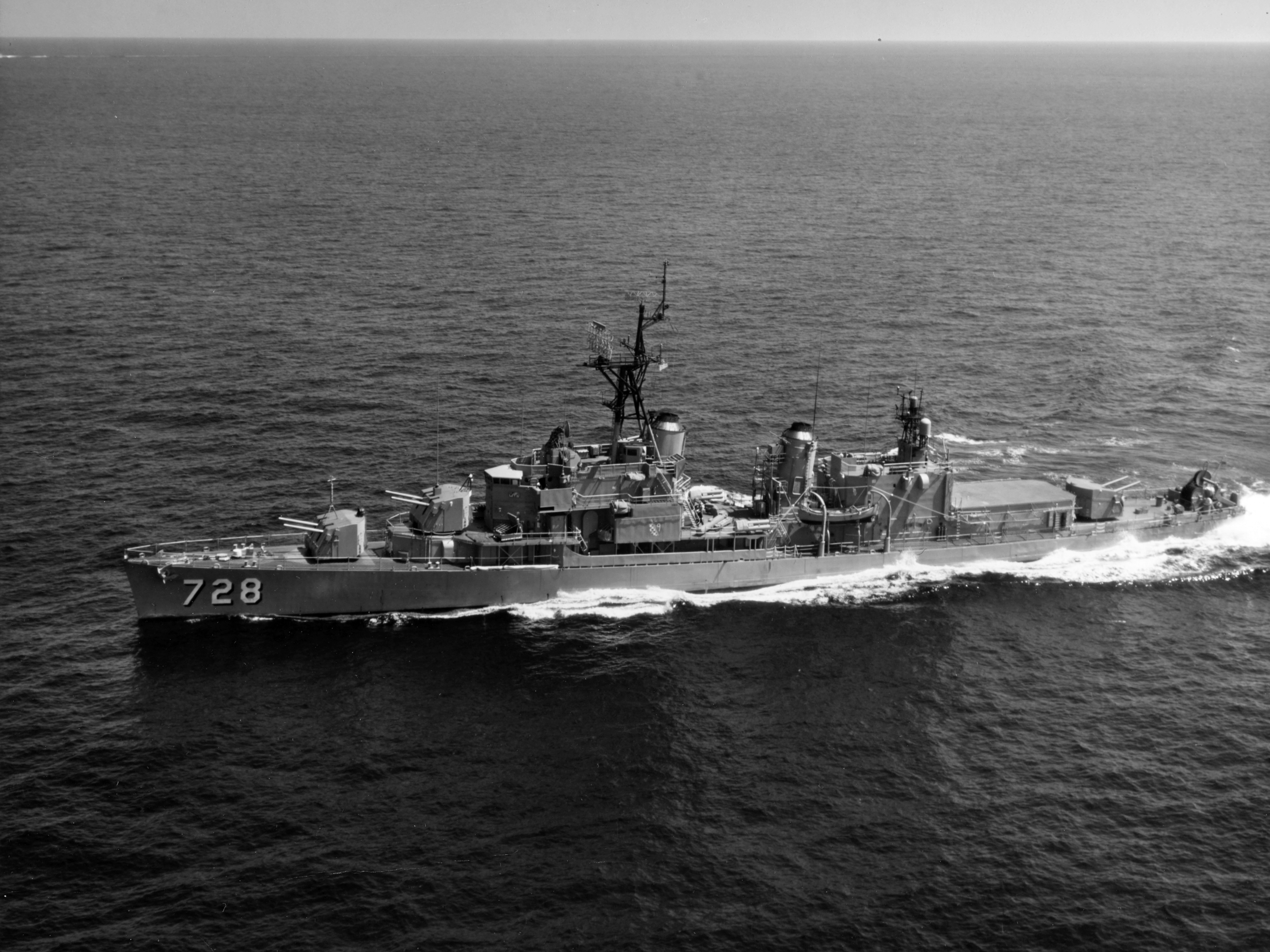 The U.S. Navy destroyer USS Mansfield (DD-728) underway at sea, circa 1960-1963, after her FRAM II modernization.